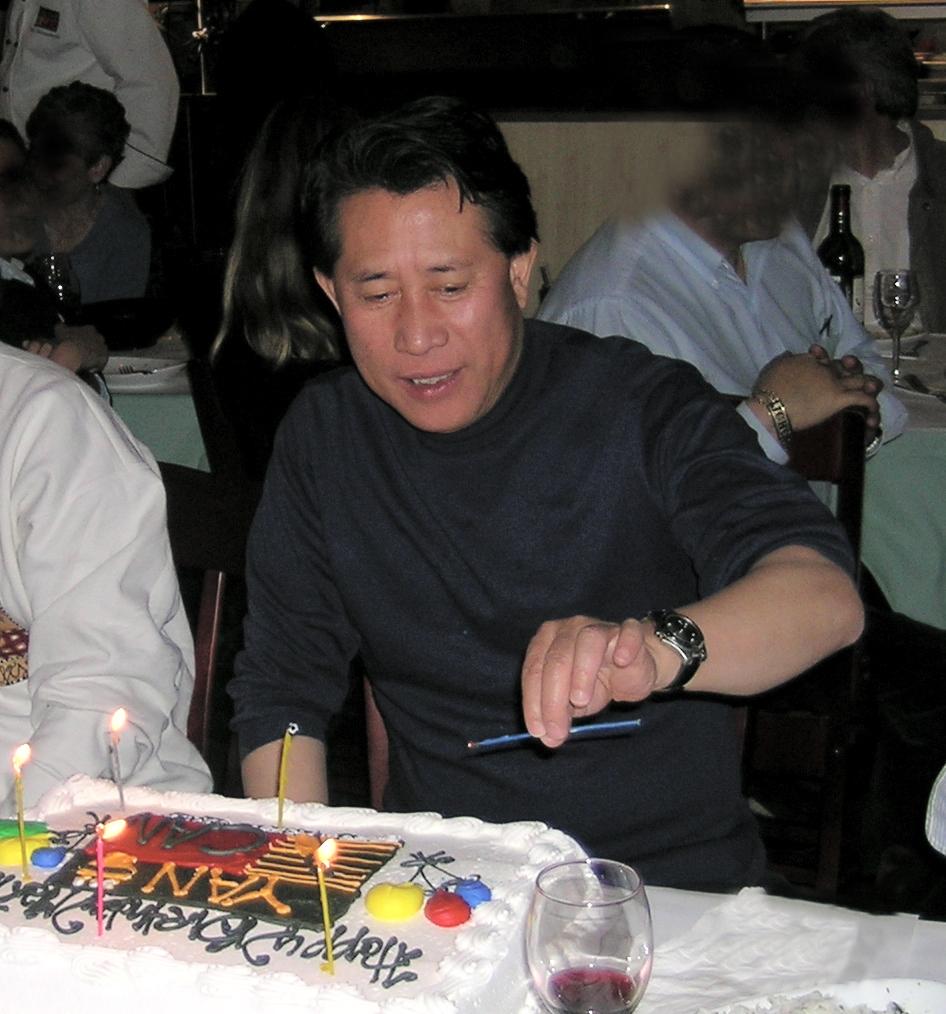 Celebration of Martin Yan's birthday with friends and family